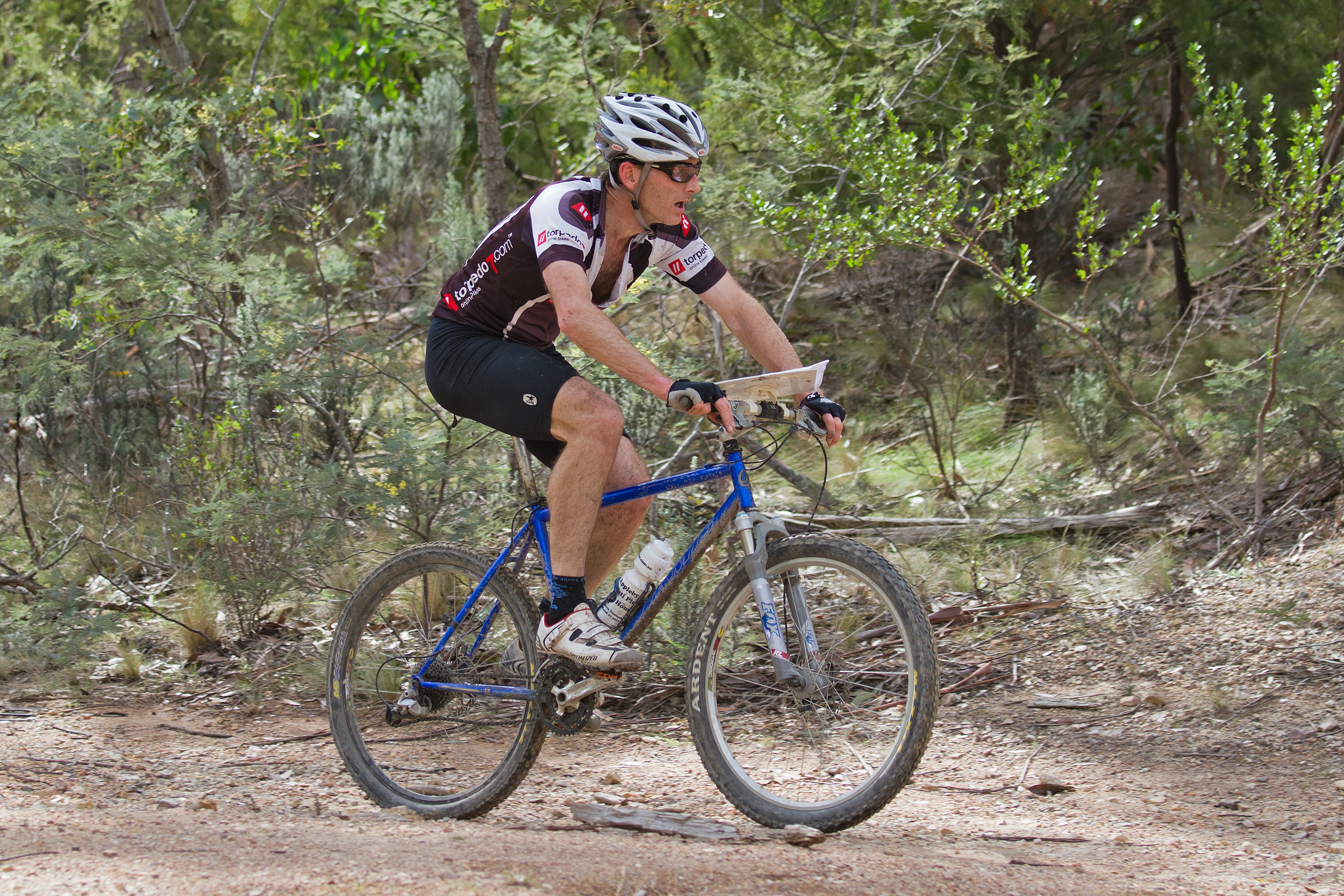 Mountain bike orienteer, Meehan Range, Tasmania, Australia